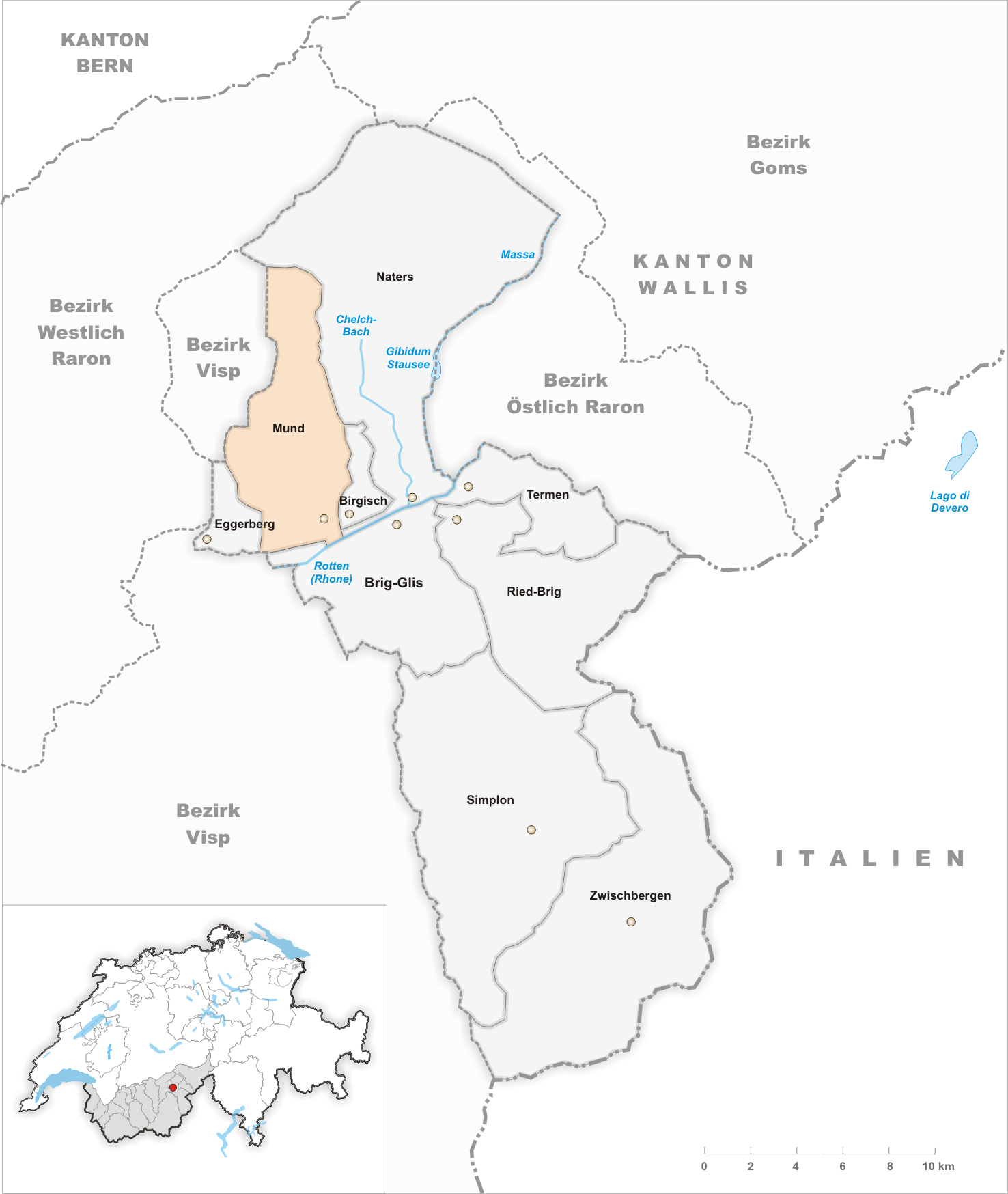 Municipality Mund